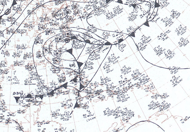 Surface weather analysis of Hurricane Isbell on October 16, 1964